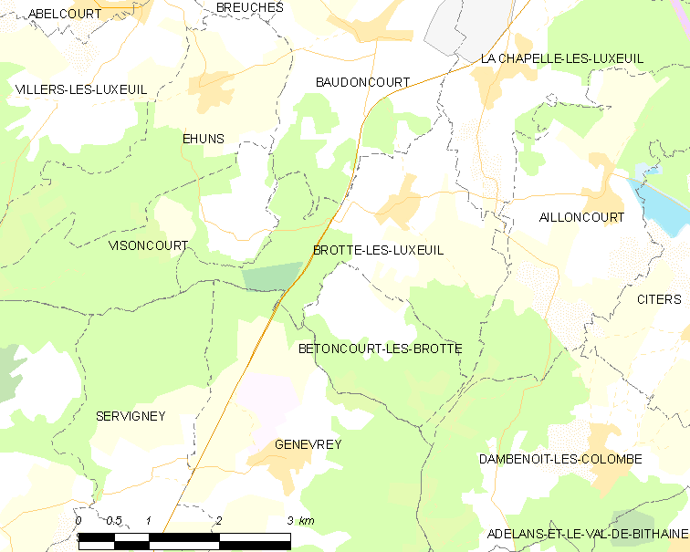 Map of French municipality